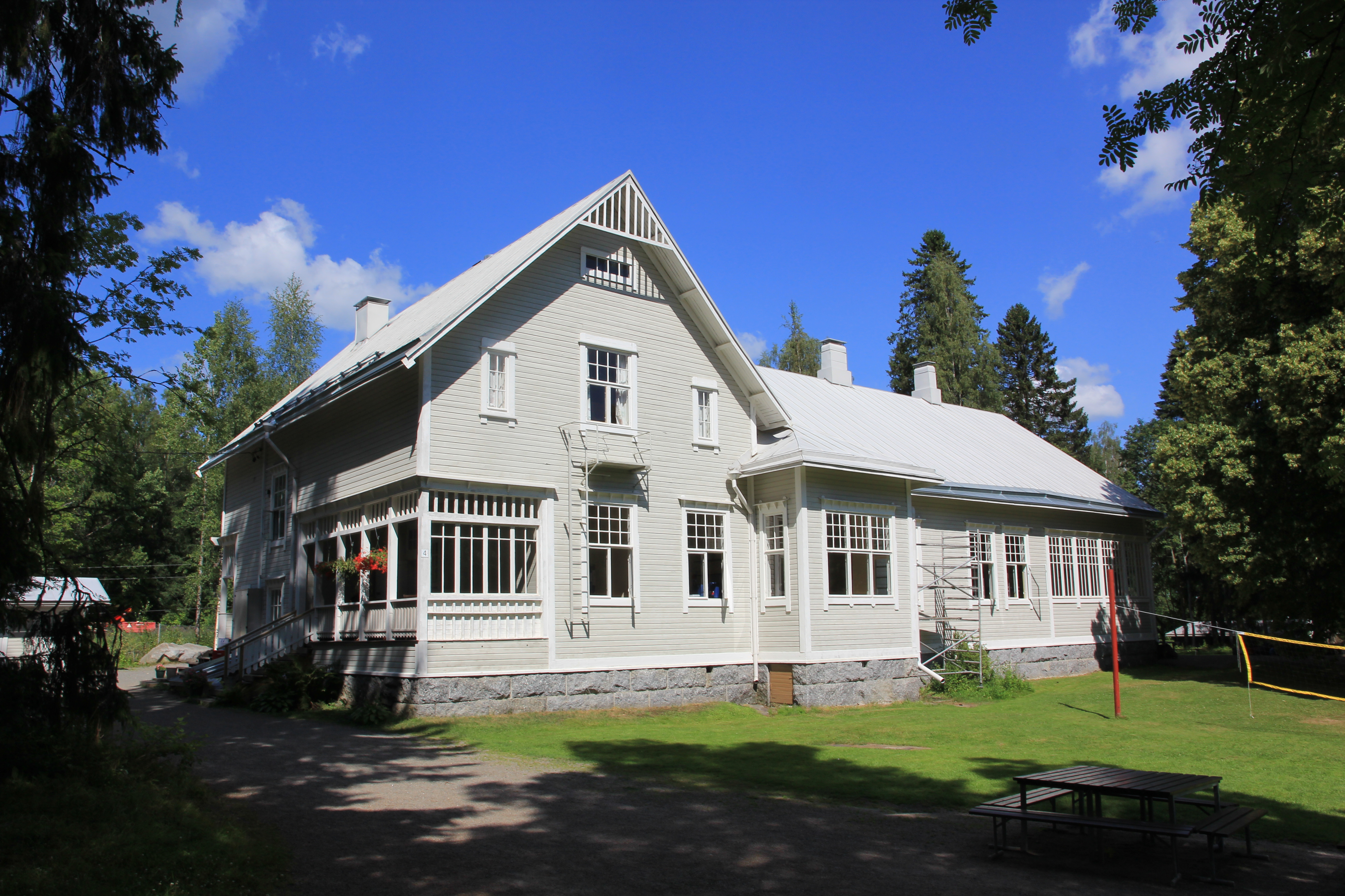 Sorja summer colony. Between 1941 and 1944 this building was an academy for Lotta Svärd women's auxiliary corps.